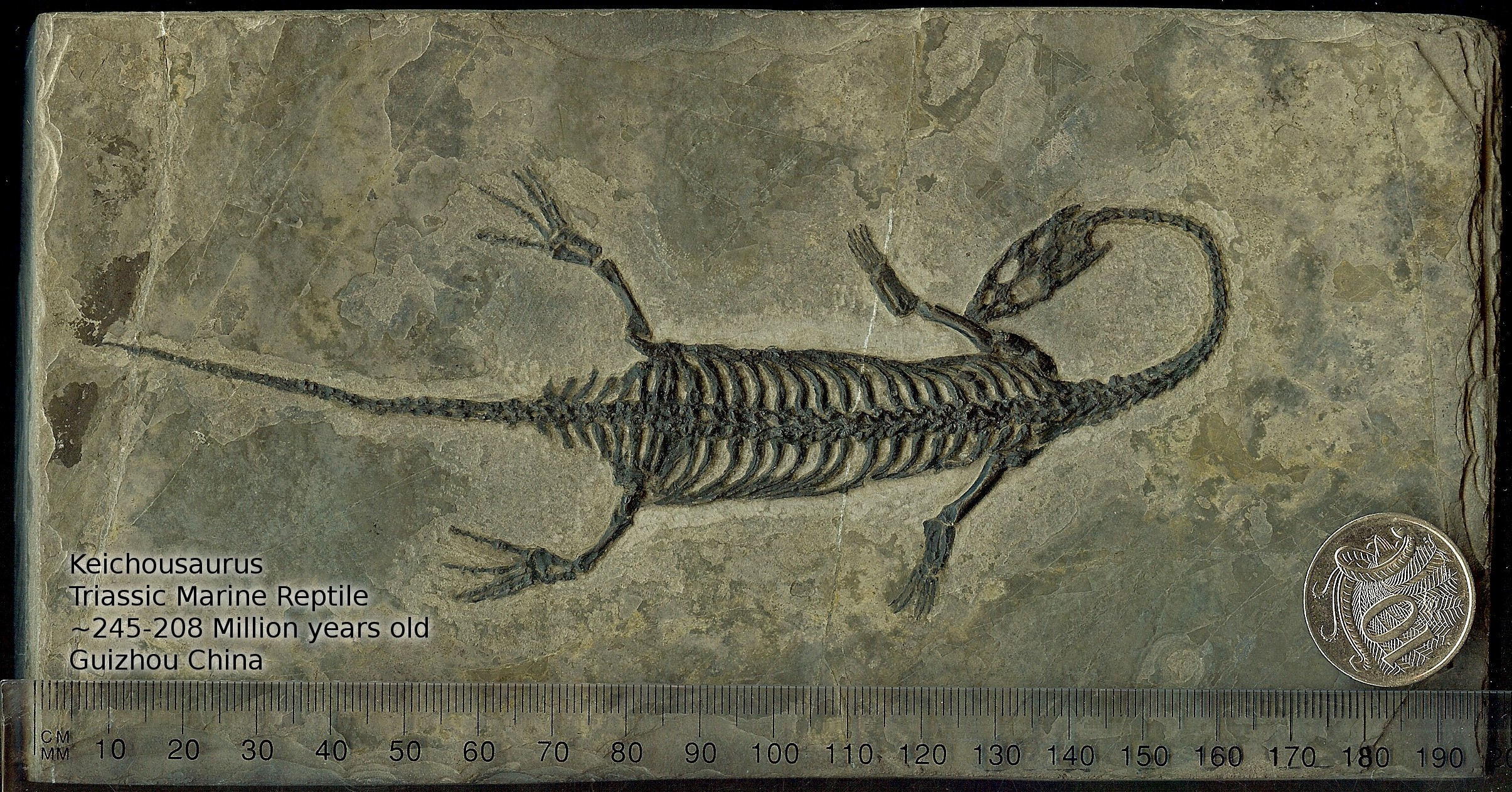 Keichousaurus. Scan of fossil bought in Cairns, Australia. Apparently from Guizhou China.